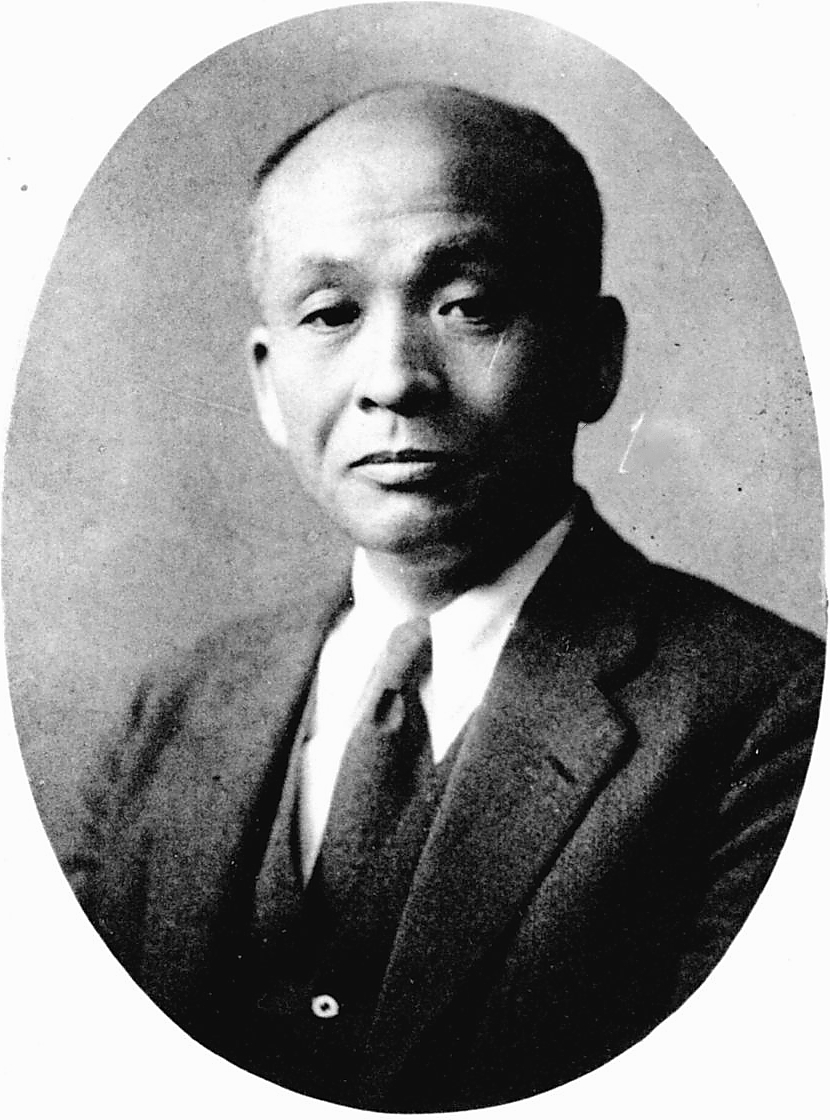 Murase Sueichi